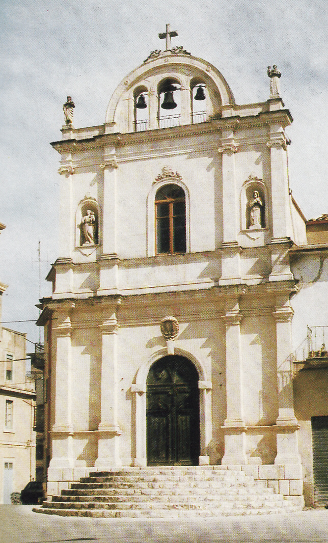 chiesa san francesco serradifalco